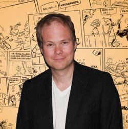 Nils Axle Kanten